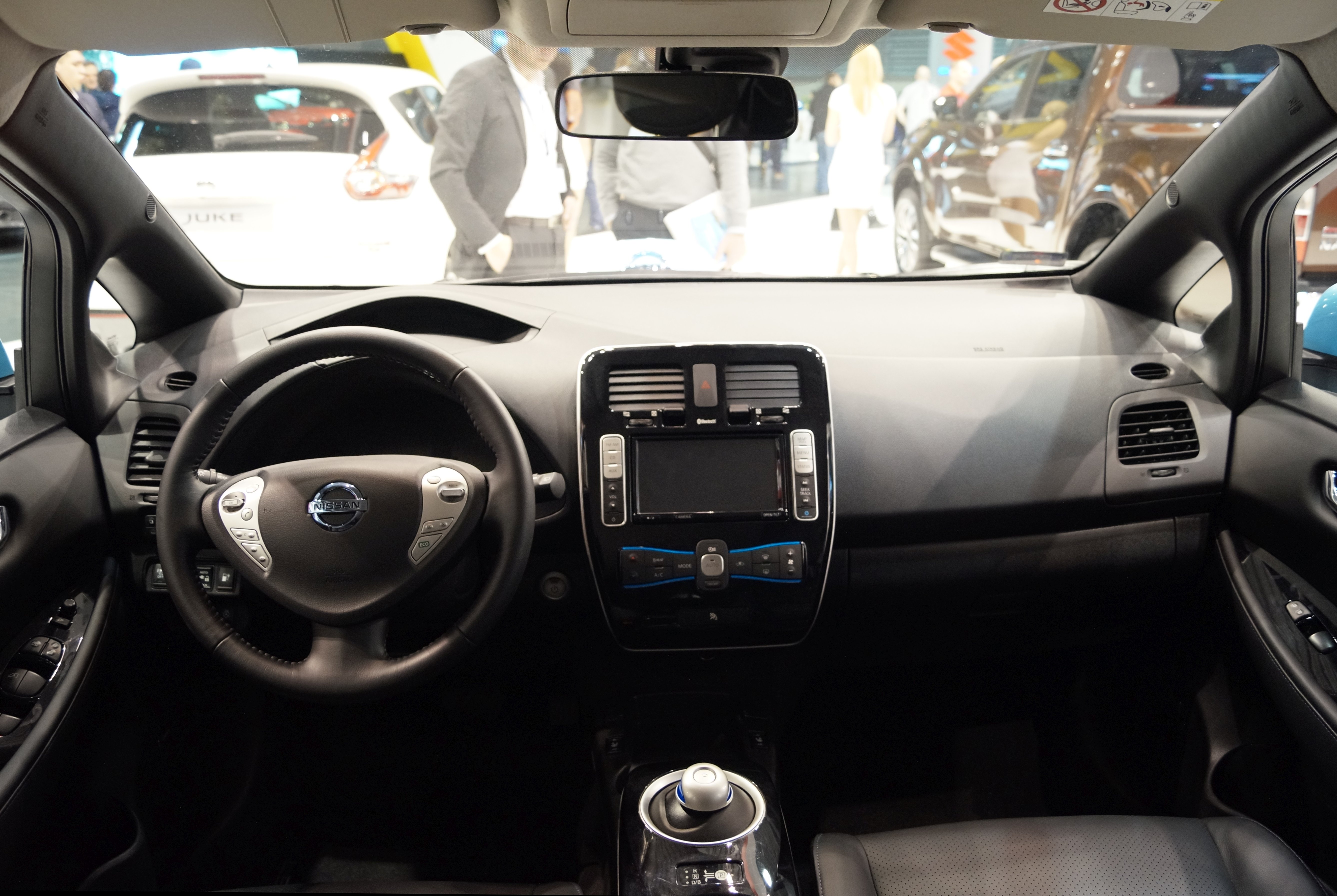 The making of this document was supported by Wikimedia Polska Association, within Wikigrant no. WG 2016-10. Wnętrze Nissana Leaf na Motor Show Poznań 2016